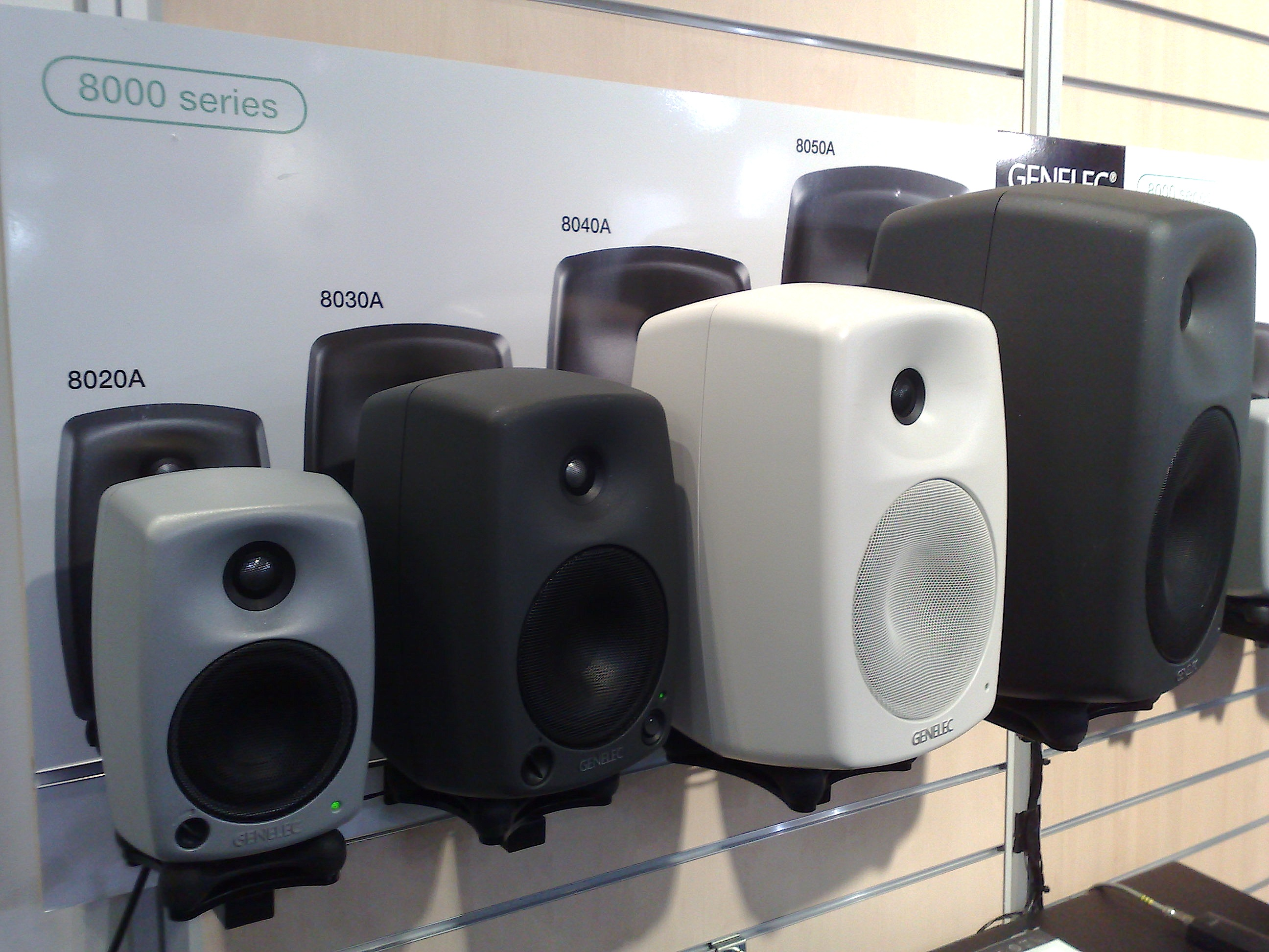 Getting smaller and smaller. I had the pleasure to listen to them and they sounded wonderful. Of course speaker appreciation is a very personal thing. I've sold my Tannoy speakers because my $100 Creative 2.1 speakers sound better.